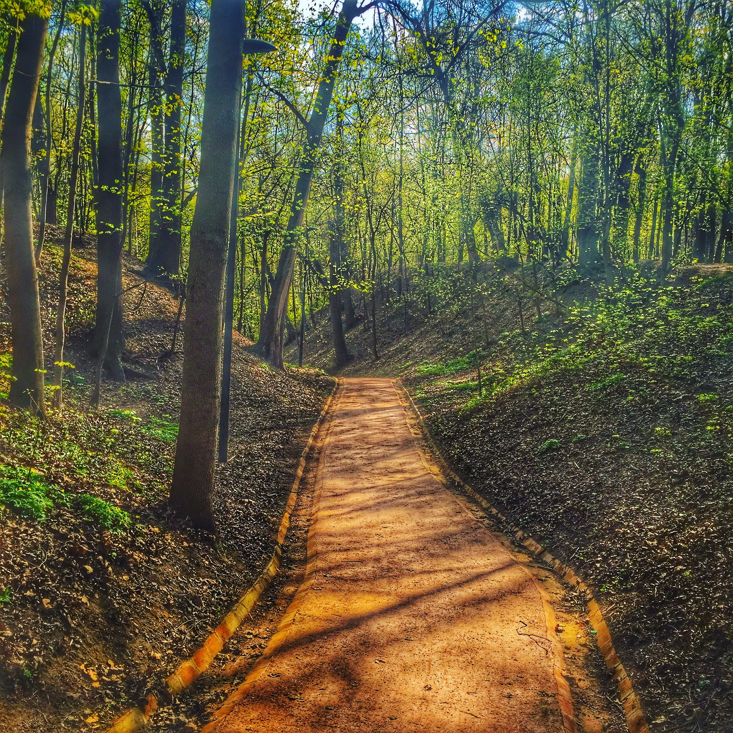 Moscow, Russia. Neskuchny Garden